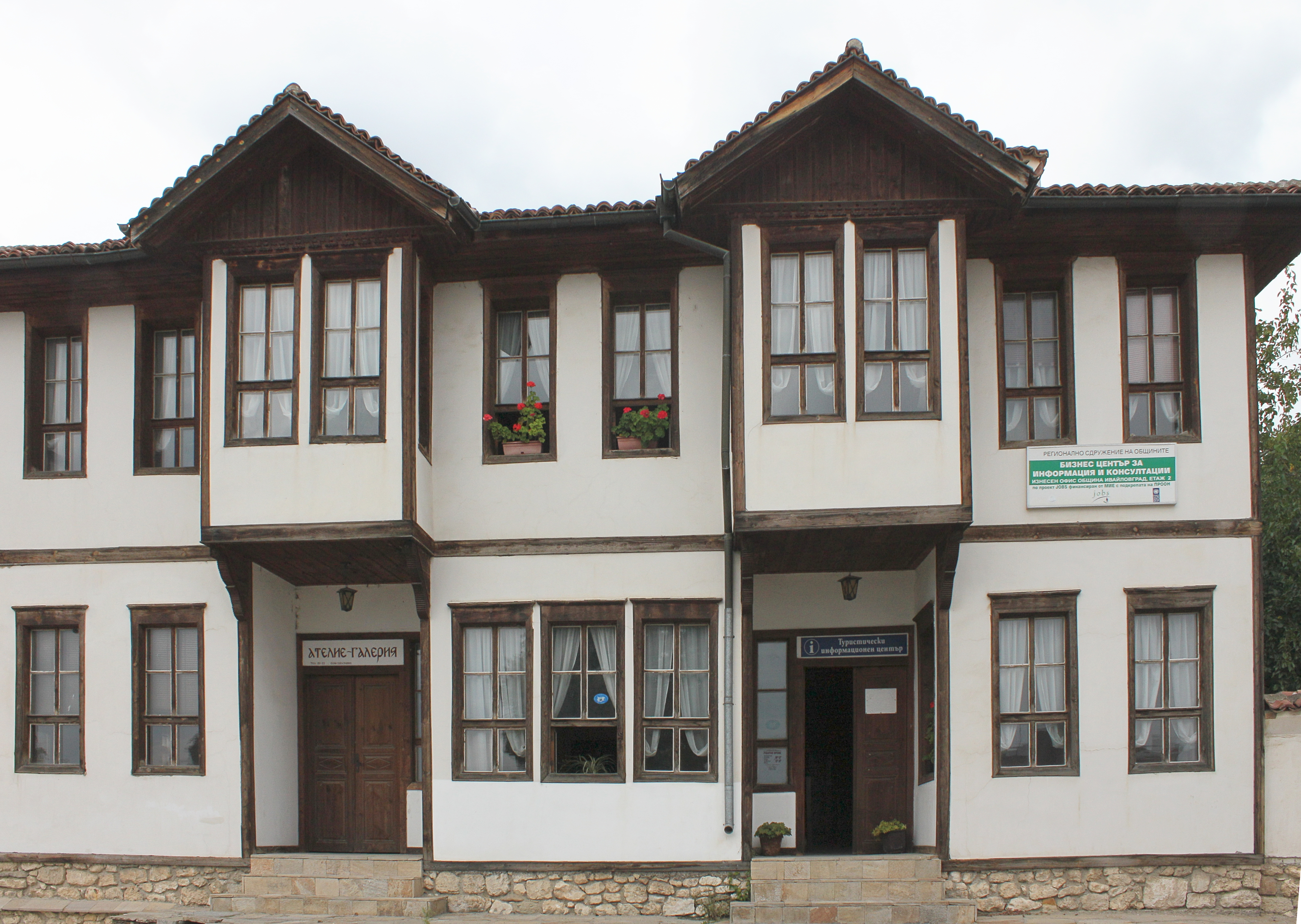 Ivaylovgrad, Bulgaria